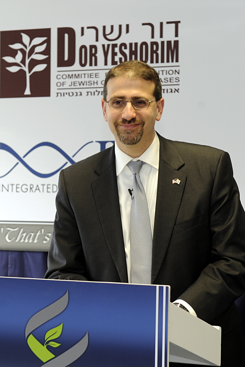 On January 10, 2012, the Ambassador visited the Mir Yeshiva in Jerusalem, one of the largest yeshivas in the world with over 6,000 students. During the tour of the yeshiva, situated in Mea Shearim, the Ambassador was accompanied by Rabbi Aharon Chodosh, Rabbi Nachman Levovitz, Rabbi Binyamin Carlebach and Rabbi Aaron David Davis. During the visit, the Ambassador was shown four study halls in three different buildings, each one with many hundreds of students studying together. The Ambassador was introduced to the Rosh Yeshiva, Rabbi Eliezer Yehuda Finkel, who acceded to this position upon the death of his father in November, Rabbi Nosson Tzvi Finkel. The Ambassador then visited The Bedomaich Chayi Cord Blood Bank which was established in Jerusalem in 2006 as a public cord-blood bank. Following a small reception and presentation ceremony the Ambassador “cut the ribbon” of a newly established laboratory and was given a short explanation of its function. At the same time, the Ambassador visited the Dor Yeshorim organization, an organization which provides genetic testing to prevent the occurrence of genetic diseases within the Jewish community worldwide. To date, the Dor Yeshorim program operates in dozens of countries around the world, having tested over 300,000 patients for the common recessive diseases. Photo Credit: Matty Stern U.S. Embassy Tel Aviv Jerusalem